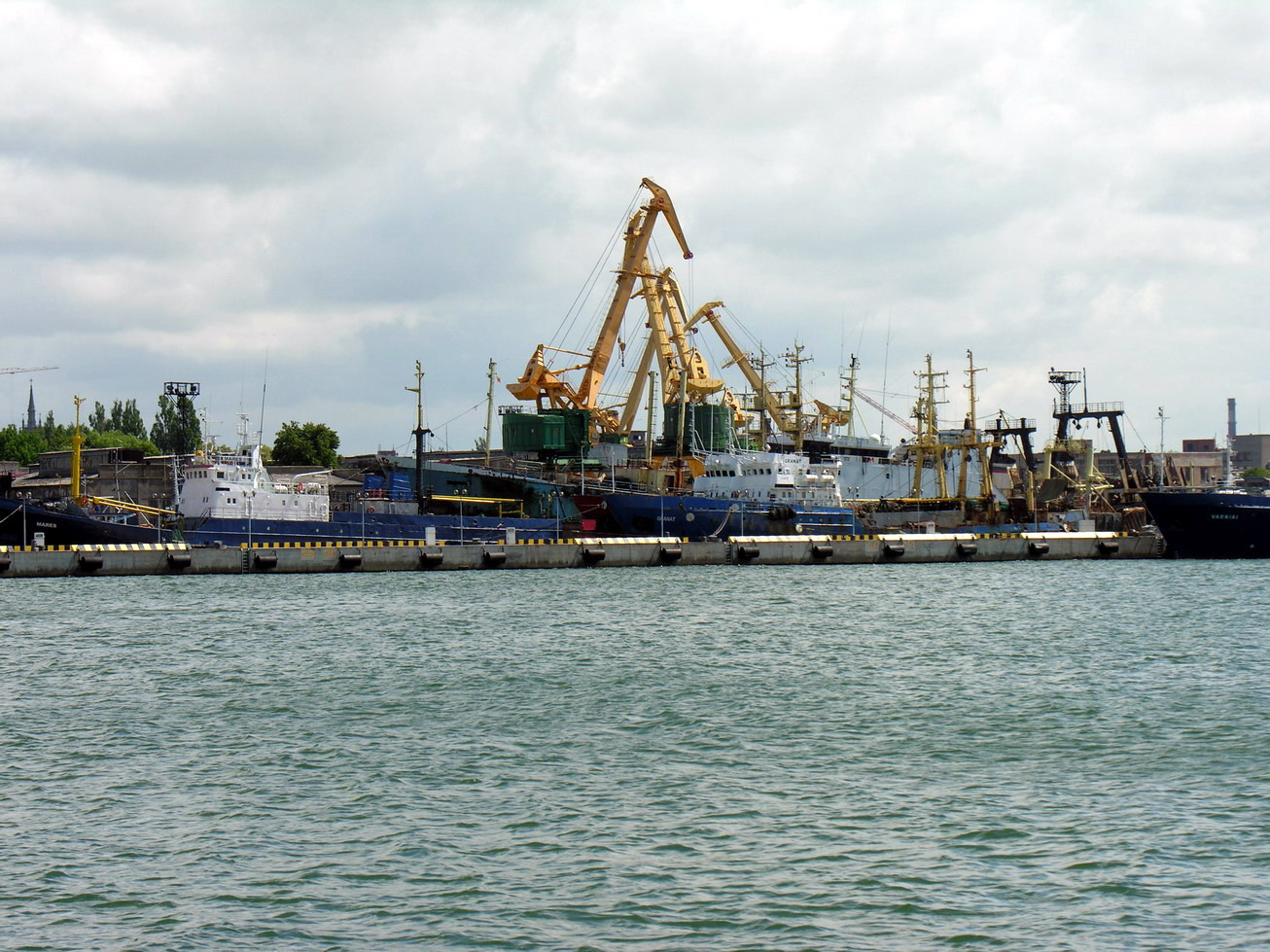 Port of Klaipėda, Lithuania